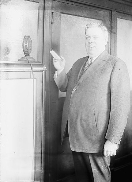 Henry Burr (1882 – 1941) gestures to microphone